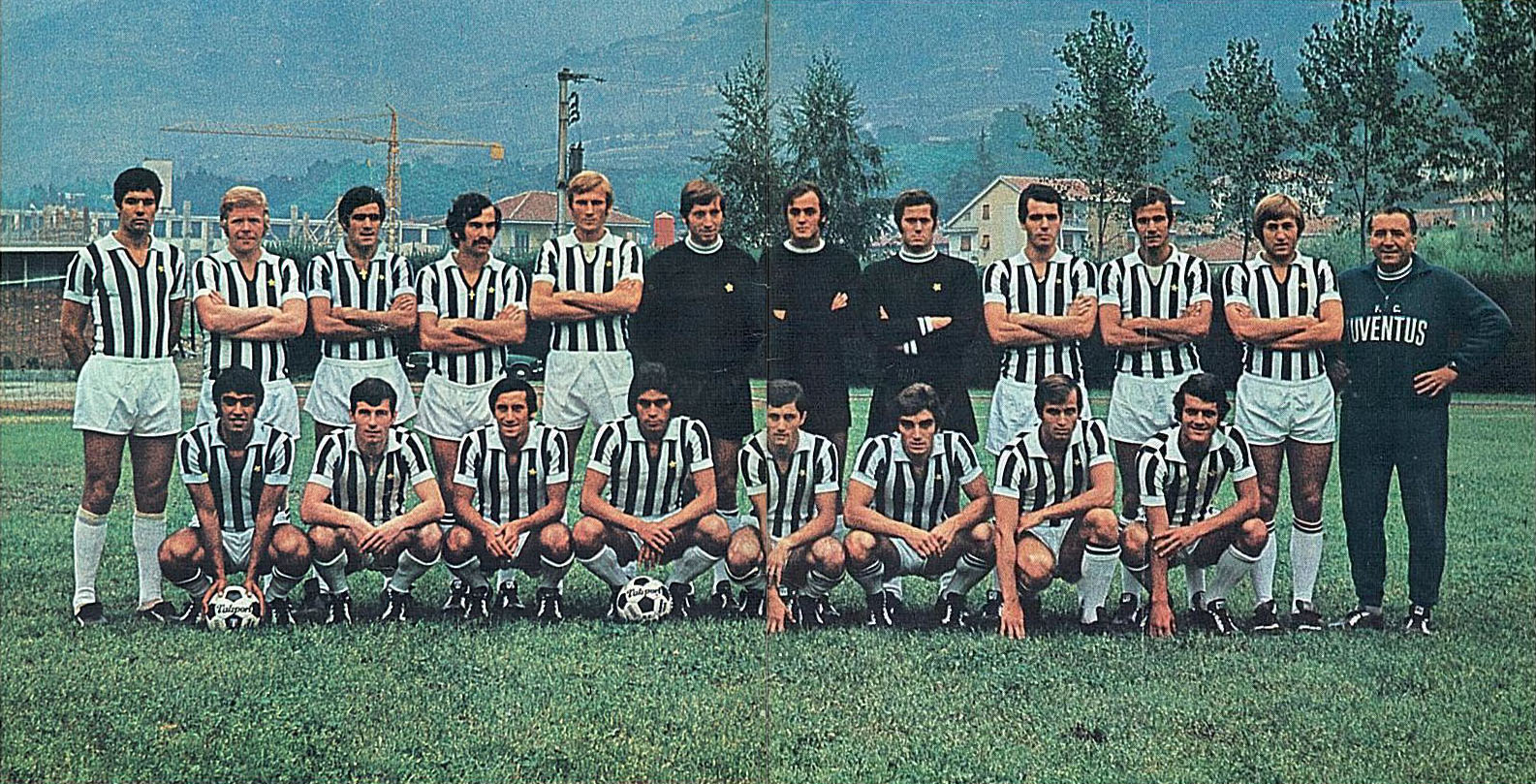 The first-team squad of Juventus F.C. in the 1971–72 season. From left to right, standing: S. Salvadore (captain), H. Haller, A. Cuccureddu, G. Savoldi (II), F. Morini, P. Carmignani, G. Alessandrelli, M. Piloni, R. Bettega, L. Spinosi, G. Marchetti, Č. Vycpálek (coach); crouched: P. Anastasi, A. Novellini, G. Furino, F. Causio, S. Longobucco, F. Viola, G. Roveta, F. Capello.